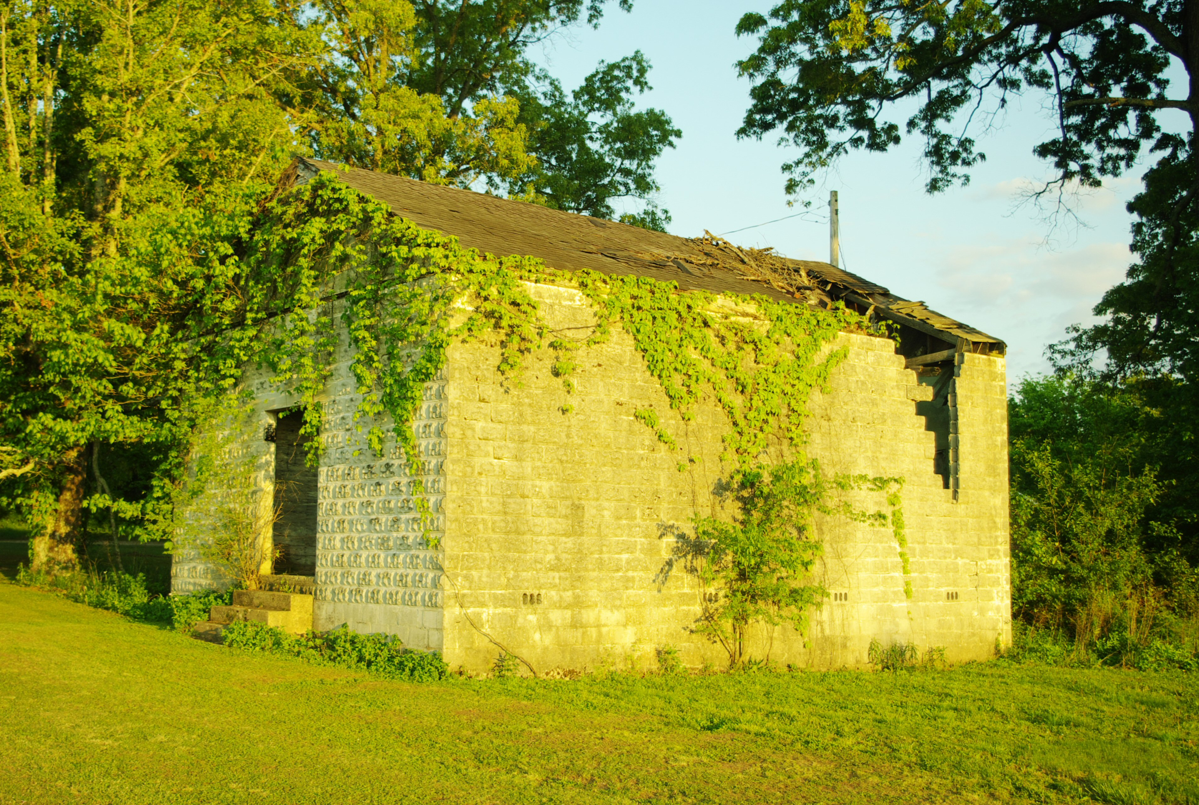 The old Asia schoolhouse, once a segregated school for African Americans in the Asia community near Decherd, Tennessee, United States. The building is now listed on the National Register of Historic Places.